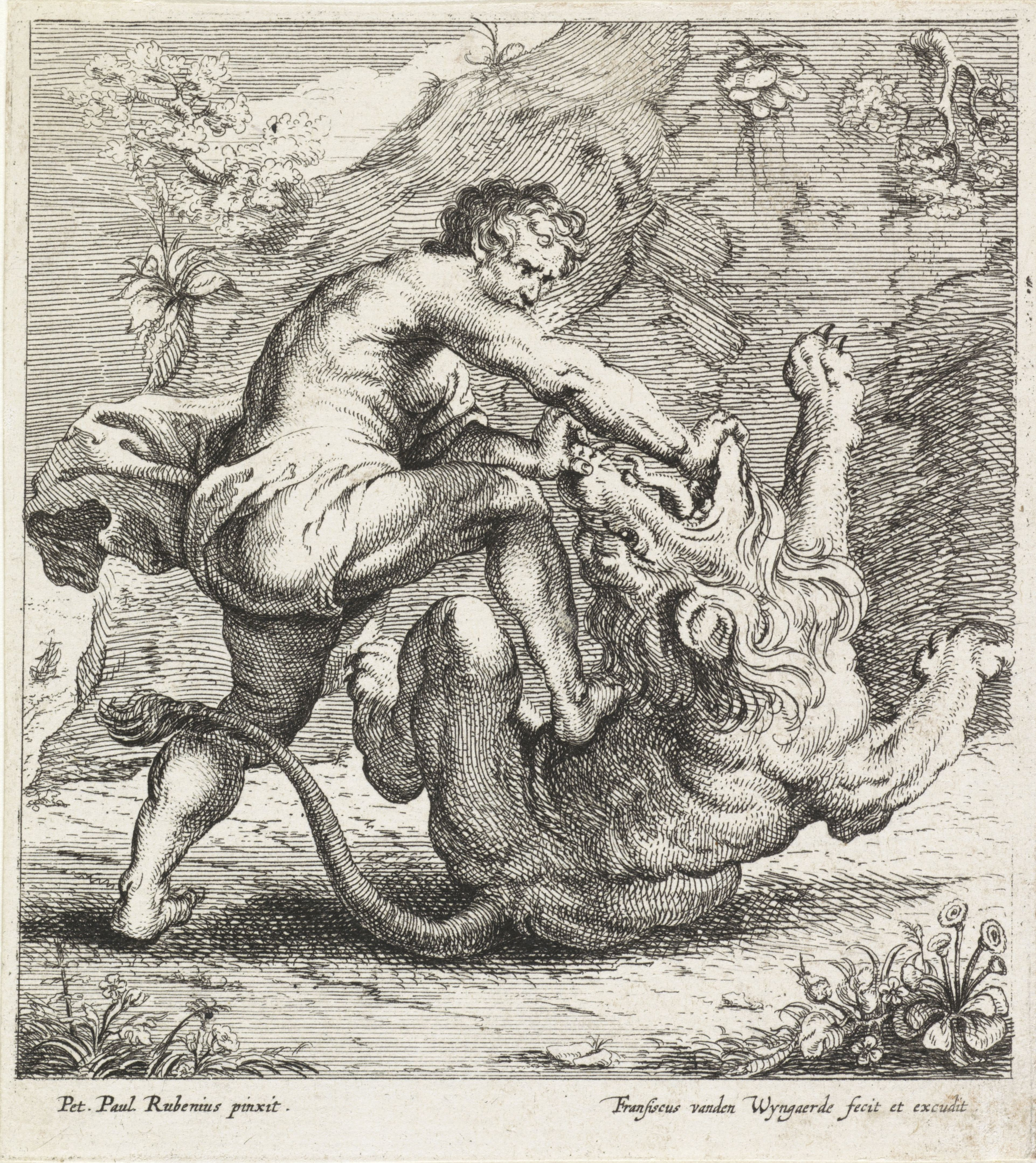 Samson kills the lion with his bare hands